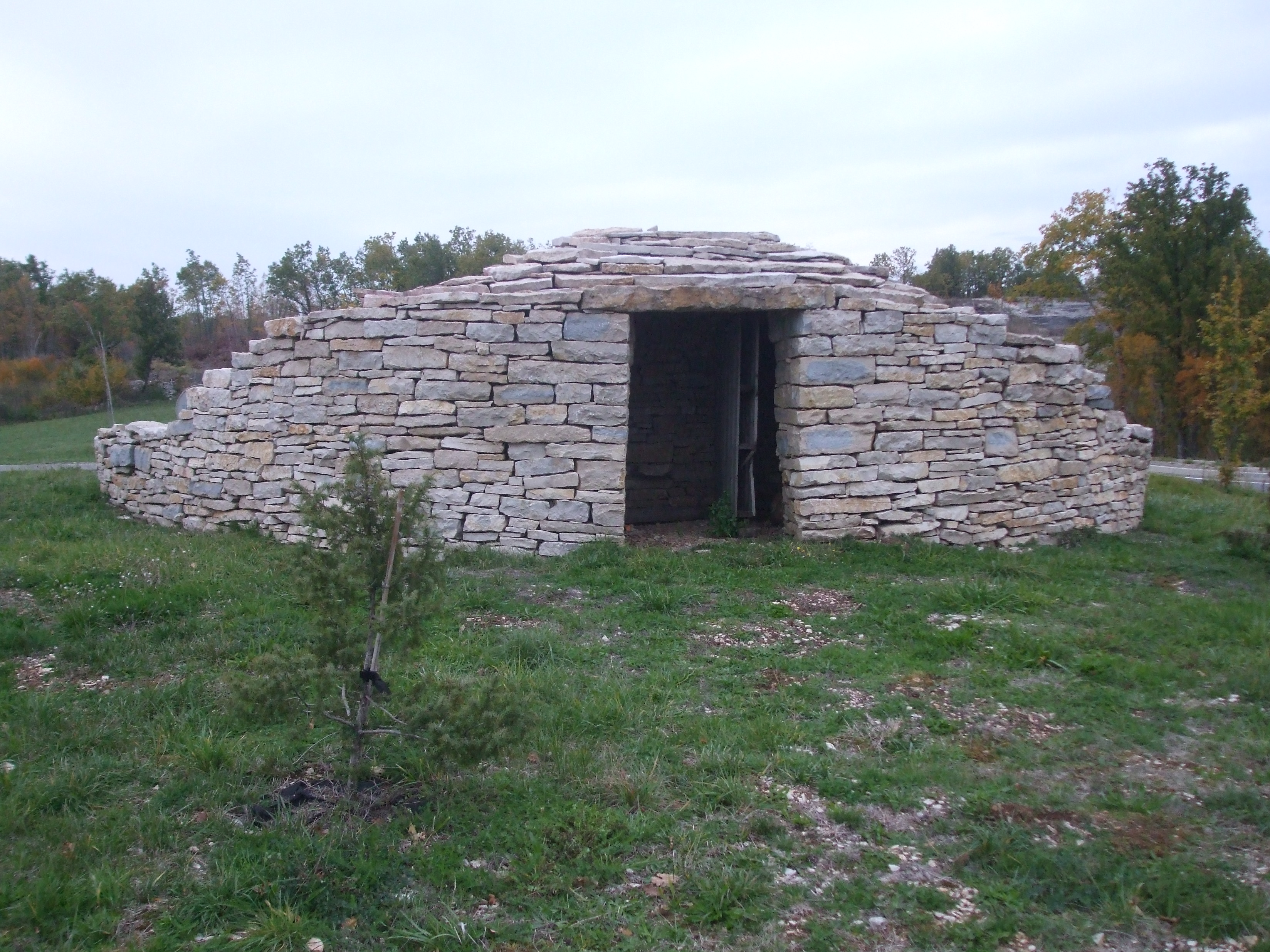 Dry stone cabin, roundabout at the entrance of Brive Vallée de la Dordogne airport, France